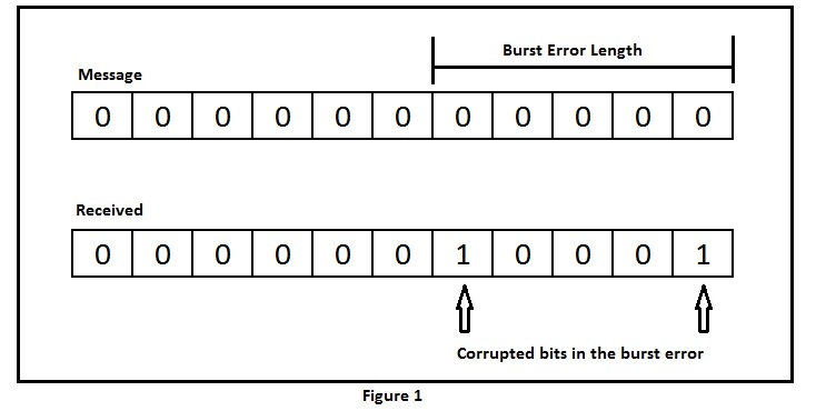 It clarifies the definition of a burst & burst length.